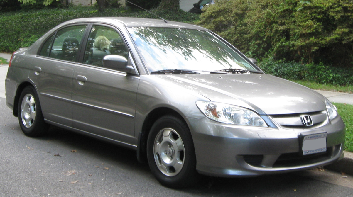 2004-2005 Honda Civic Hybrid photographed in Washington, D.C., USA.